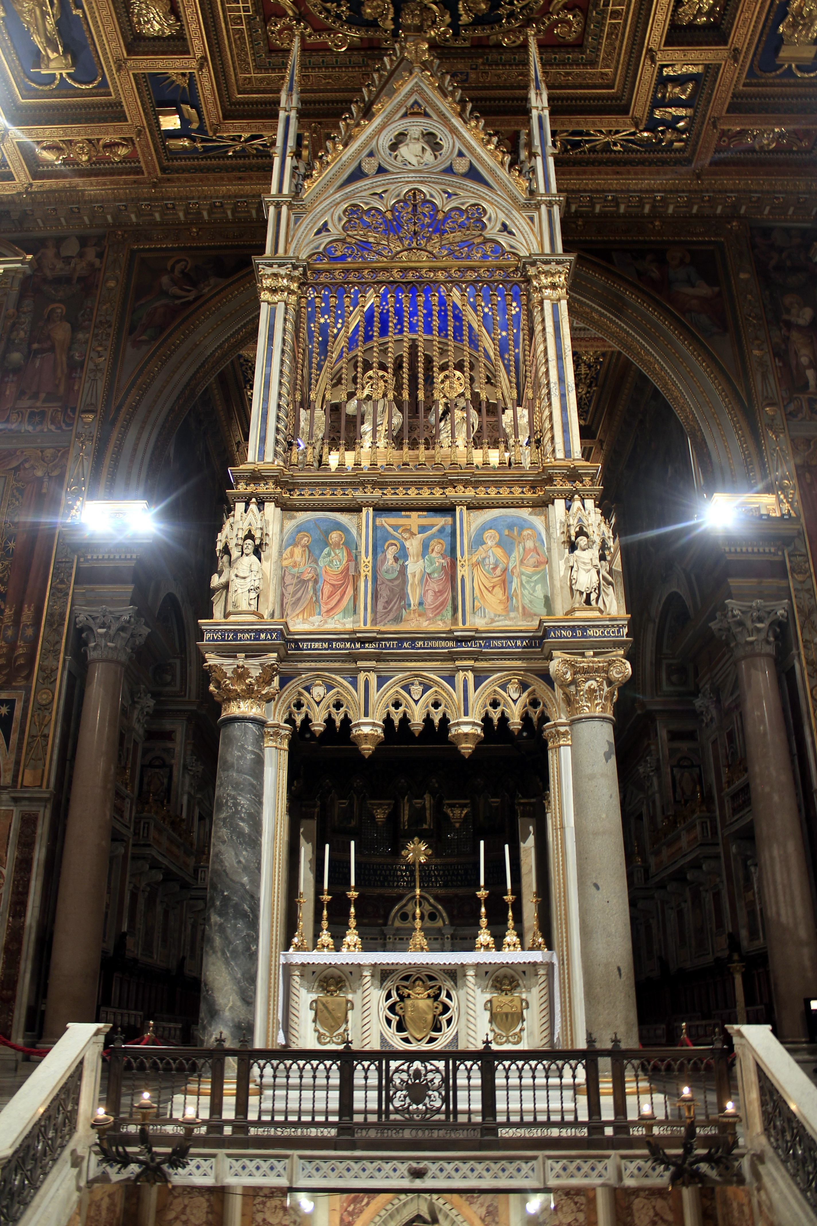 14th century gothic baldacchino